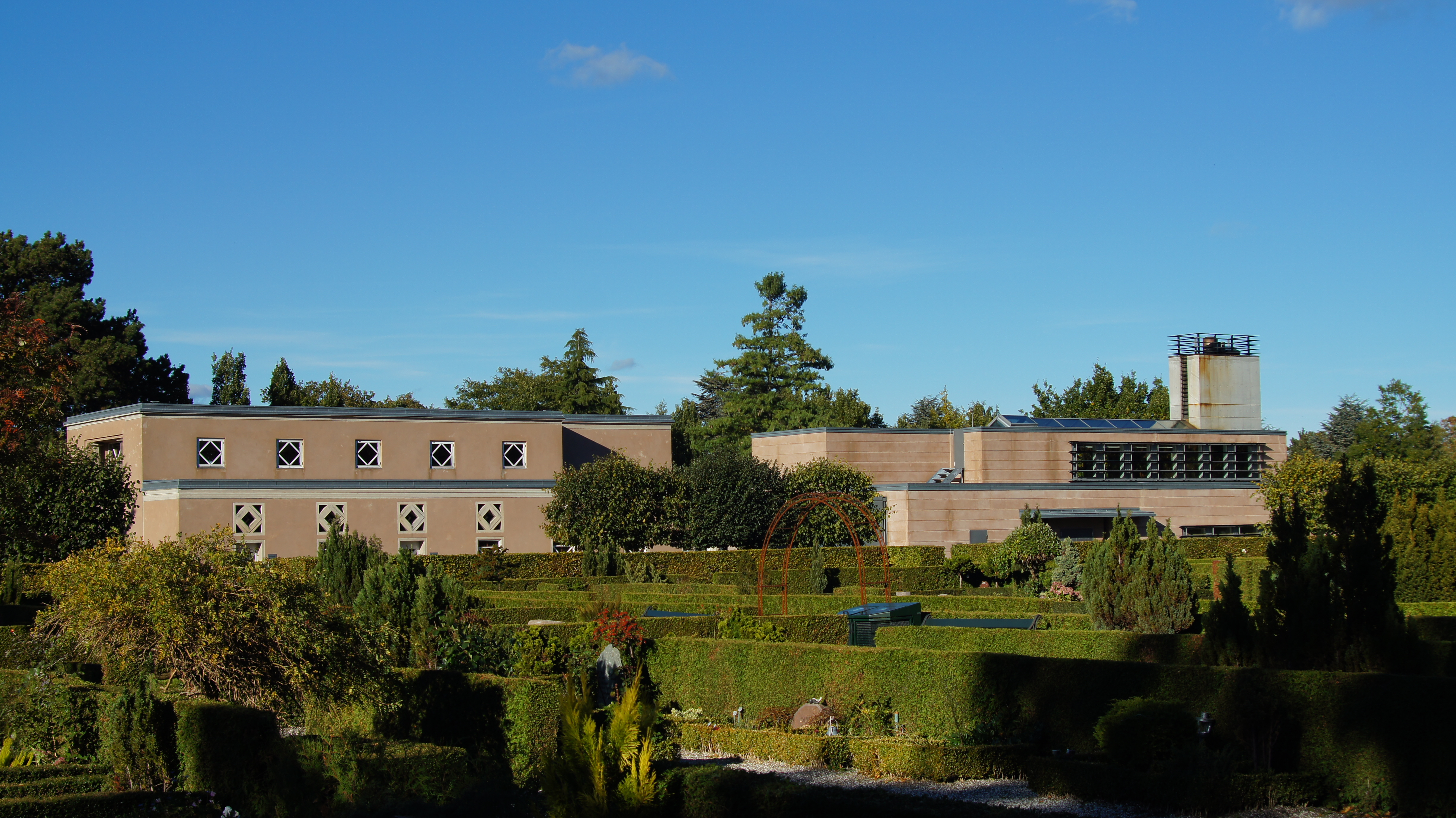 Sundby chapel, crematorium and columbarium 2004 (1931)